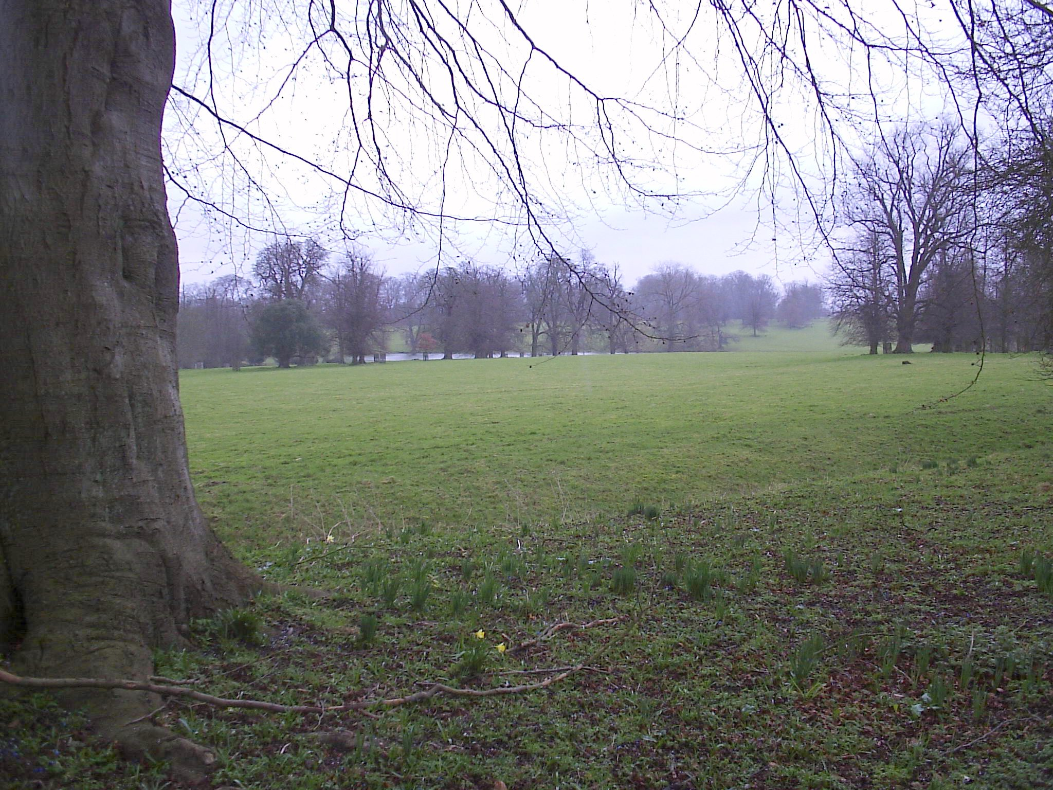 View over the Castle Ashy ha-ha.